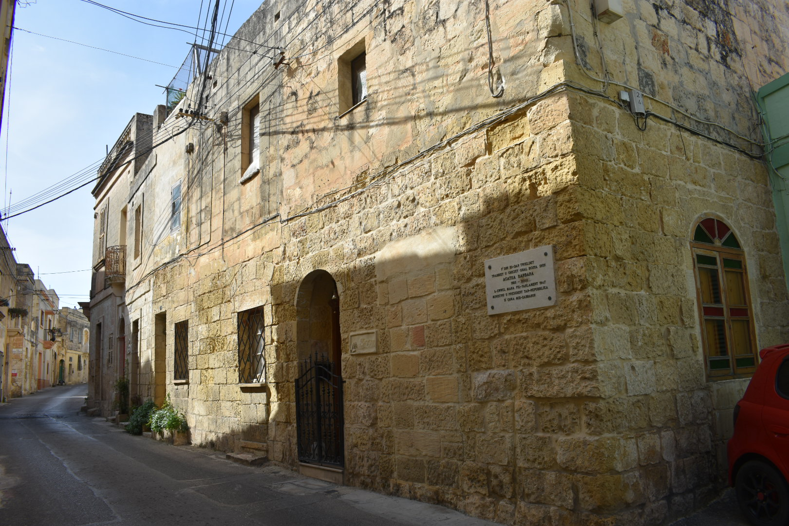 Żabbar